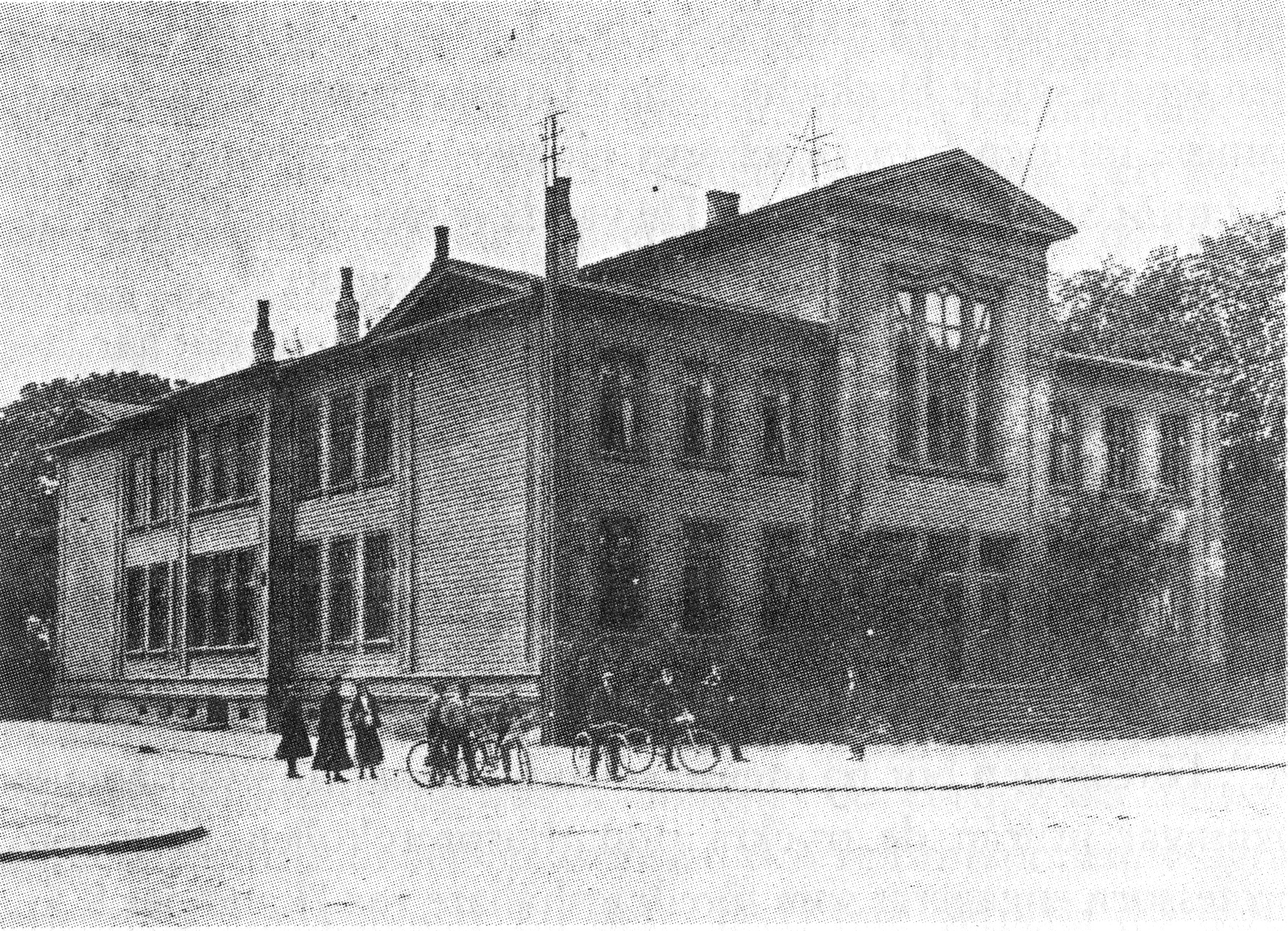 The old building of the Schillerska realgymnasiet, where the College of Göteborg was first housed.